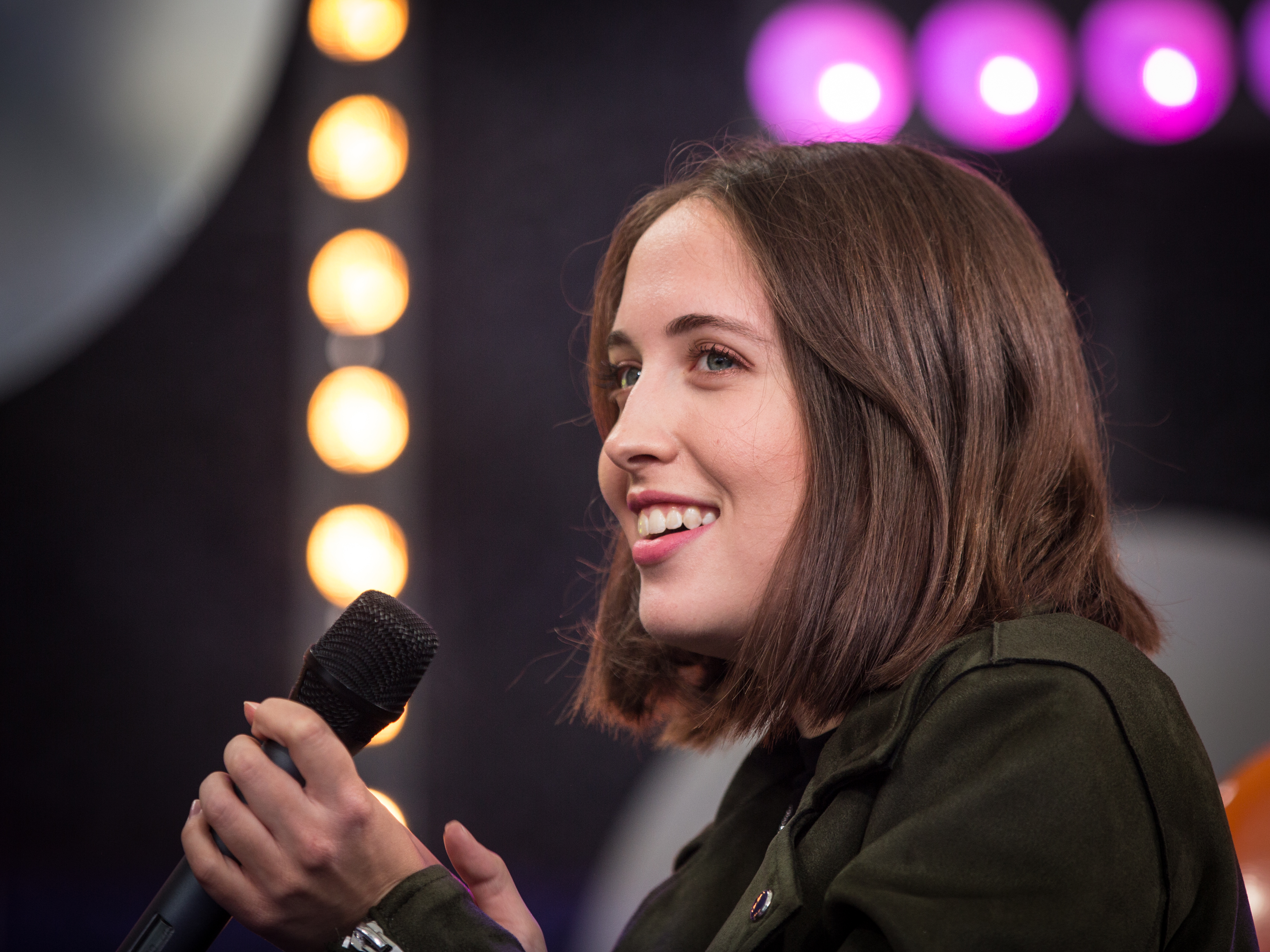 Canadian singer-songwriter Alice Merton at the SWR3 New Pop Festival 2017